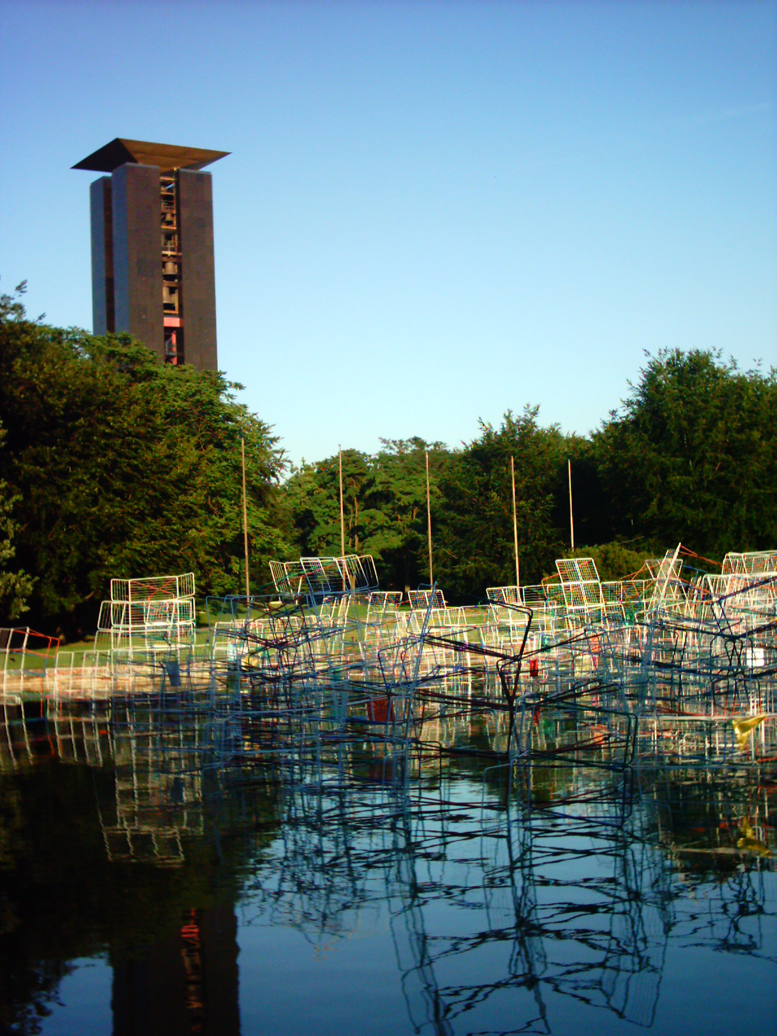 Commissioned work for the House of World Cultures by Chinese artist Qin Yufen in front of the House of World Cultures (the former Congress Hall) in Berlin